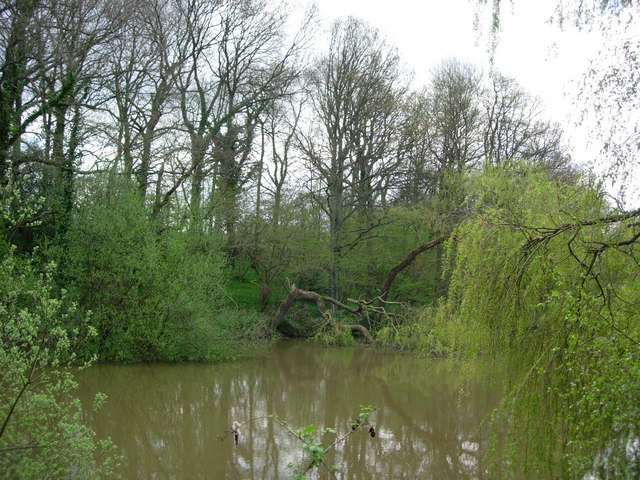 A Pond in Parrock Lane, Upper Hartfield. A pretty pond by the roadside.